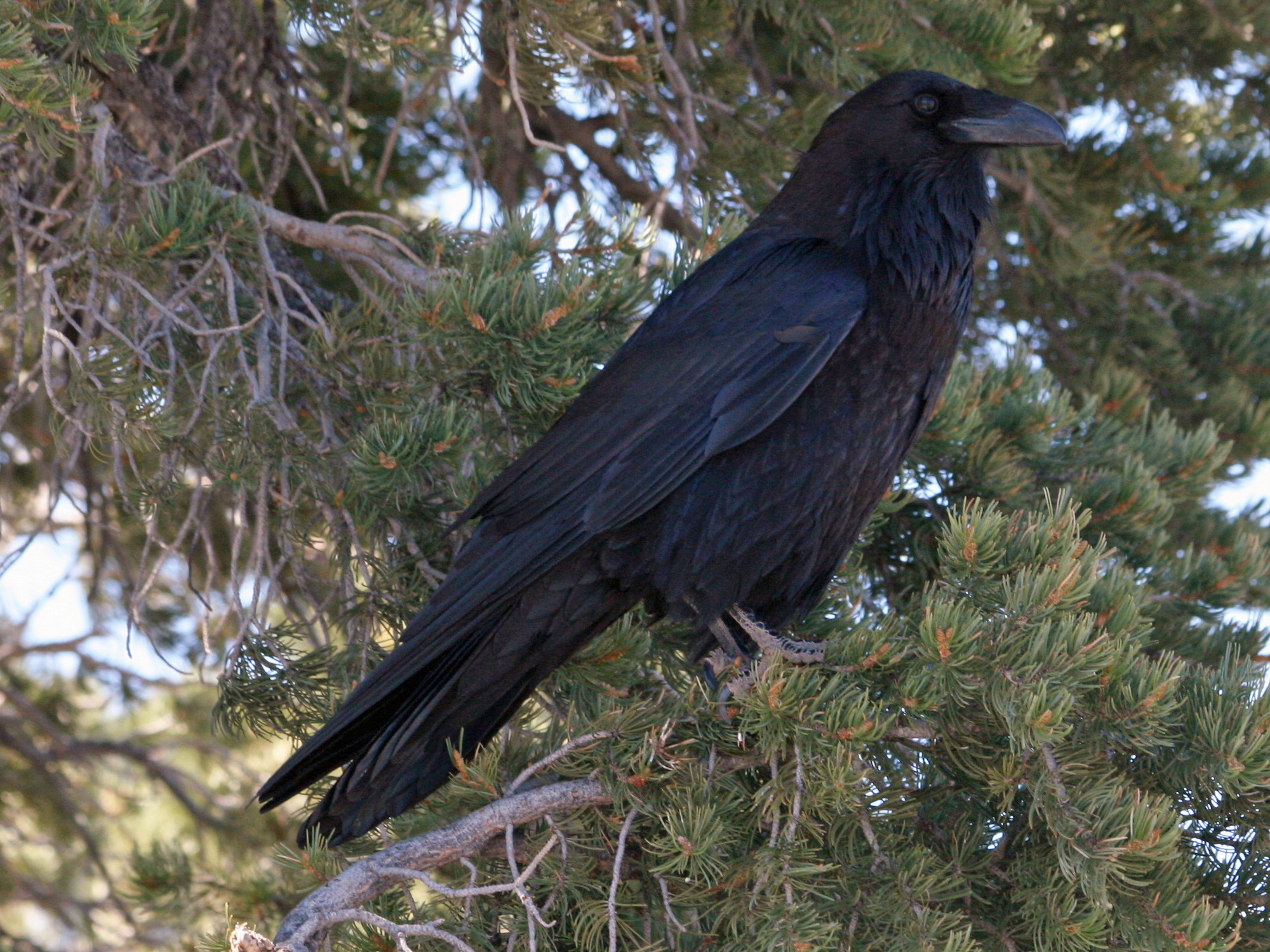 Common Raven (Corvus corax) at the Grand Canyon in Arizona